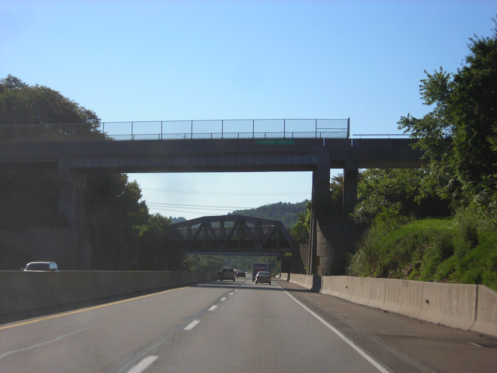 Interstate 76 - Pennsylvania eastbound at Homewood Viaduct